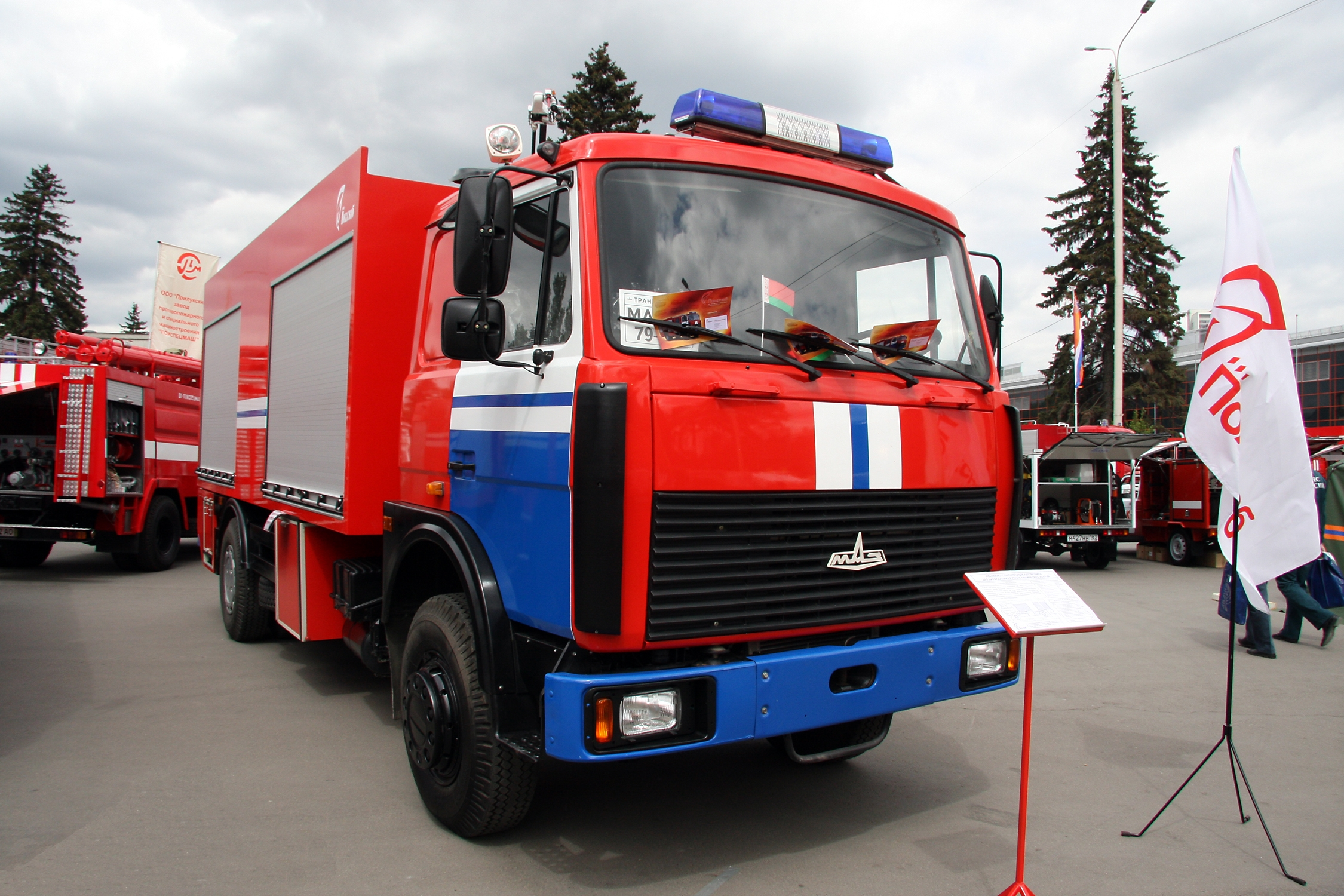 Fire truck ATs 5,0-50-4 on MAZ-5336A3-chassis at the Integrated Safety and Security Exhibition 2009.